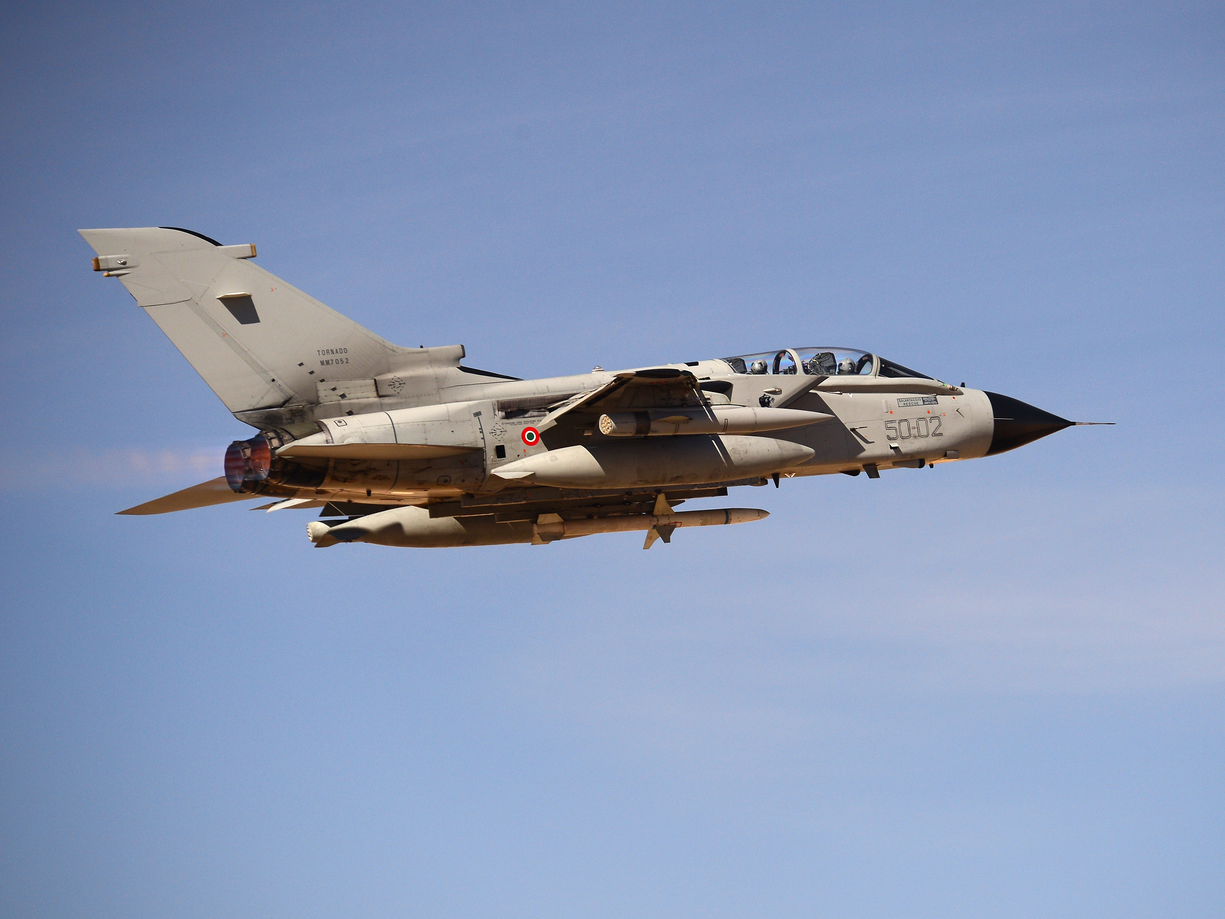 A Italian Aeronautica Militare Panavia Tornado ECR of 155° Gruppo E.T.S., 50° Stormo departs on a combat mission during the "Blue Flag" exercise on Ovda Air Force Base, Israel, on 25 November 2013. The exercise was designed to promote improved operational capability, combat effectiveness, understanding and cooperation between the U.S., Israel, Greece, and Italy. The participating units engaged multiple heavy air defense assets, ground base targets and simulated opposition forces to meet combined operations requirements.